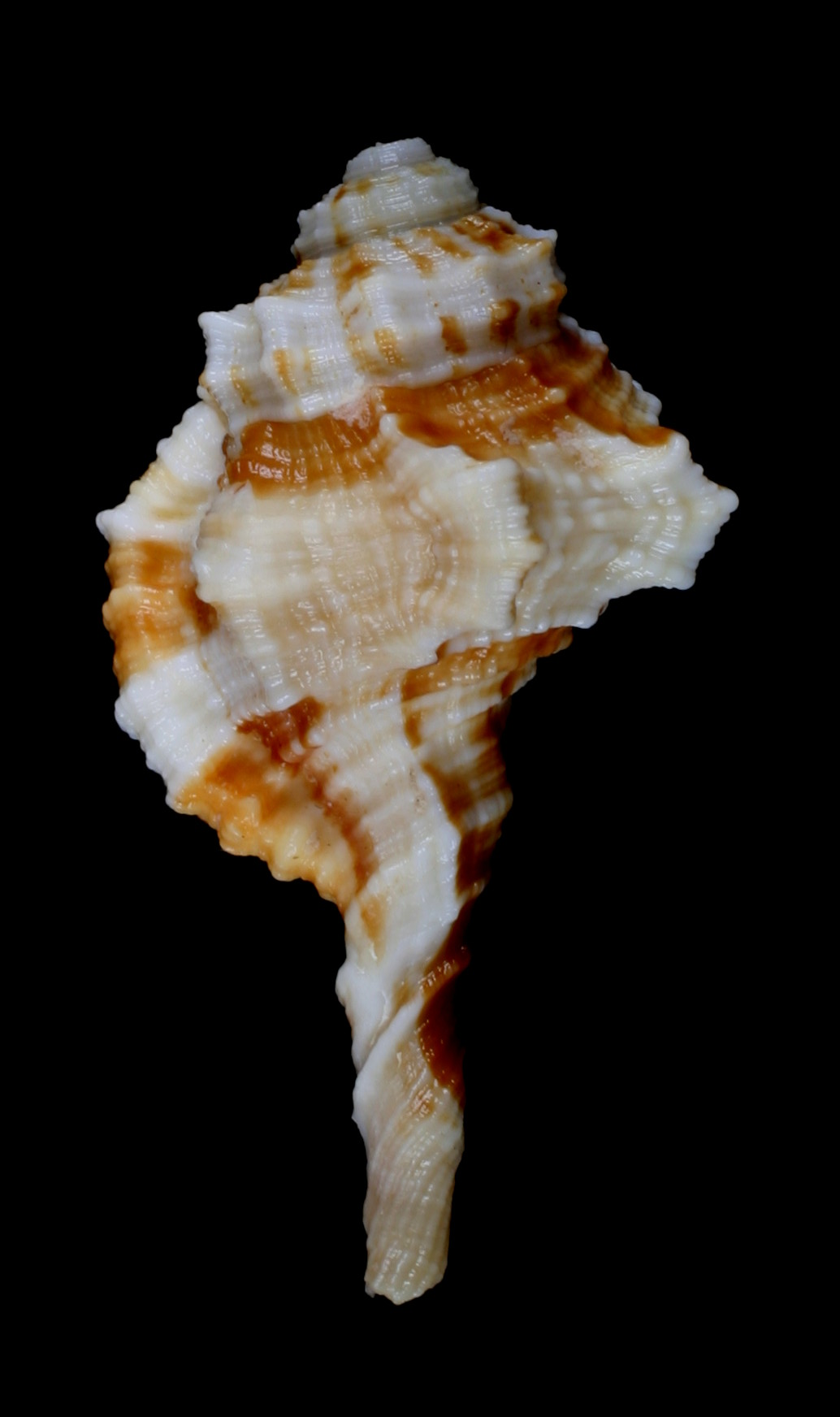 Ranellidae: Ranularia exilis (Reeve, 1844)